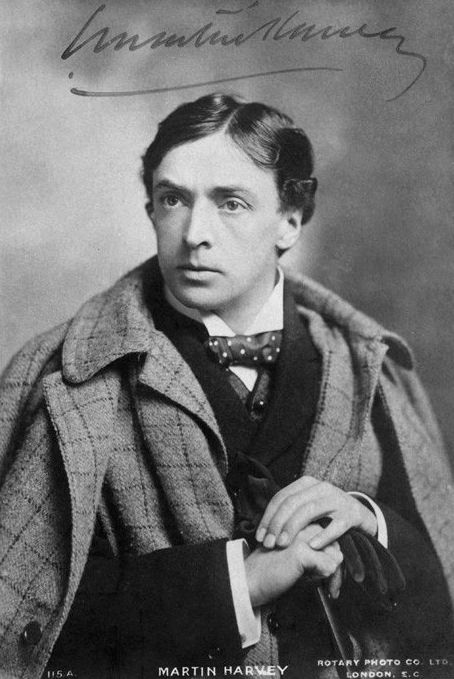 Sir John Martin-Harvey